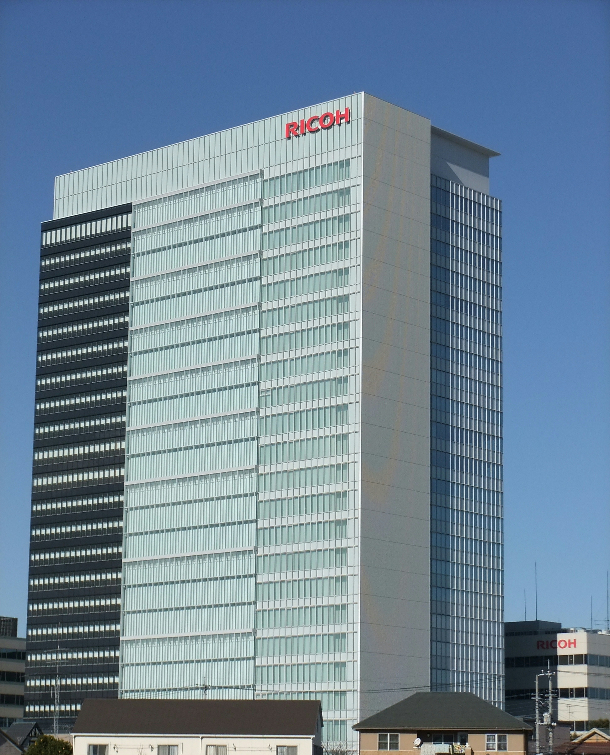 Ricoh, Technology Center at Ebina city, Kanagawa